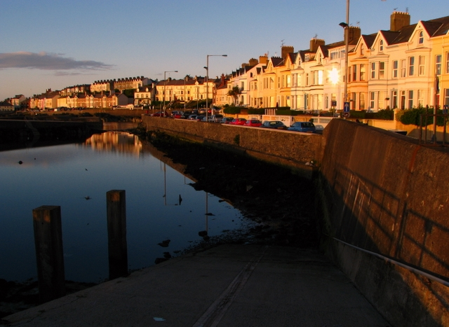 Slipway at the 'Long Hole' [2] Standing above the now disused slipway and looking across the 'Long Hole' in Bangor with the houses on the Seacliff Road behind. See also 833472.